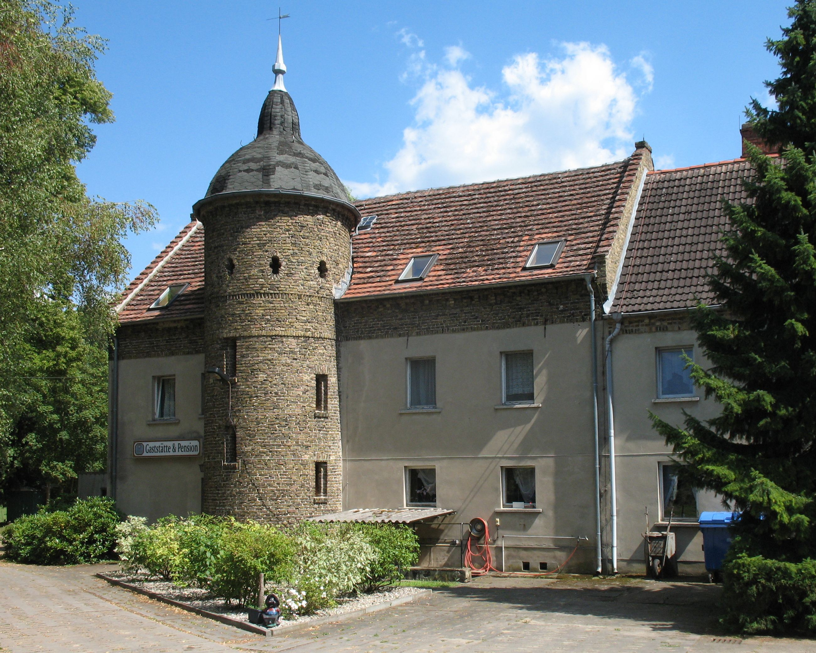 Former brickyard in Werder-Petzow in Brandenburg, Germany